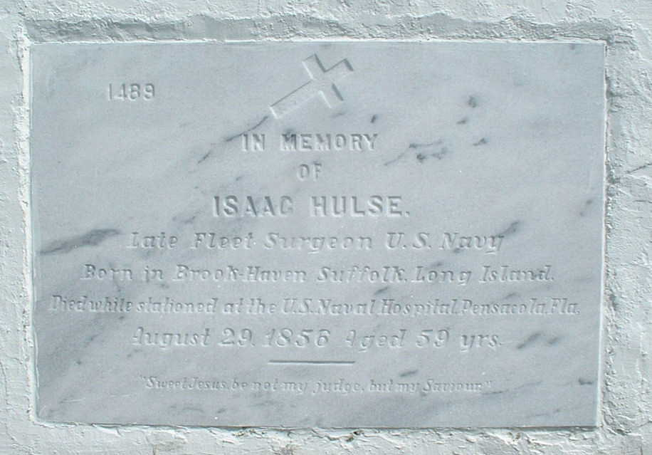 Memorial to Dr. Issac Hulse (1797 1856) Fleet Surgeon, USN, Brrancas National Cemetery Escambia County Florida